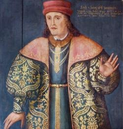 A painting of Eric of Pomerania made by Pieter Hartman (probably in 1607).